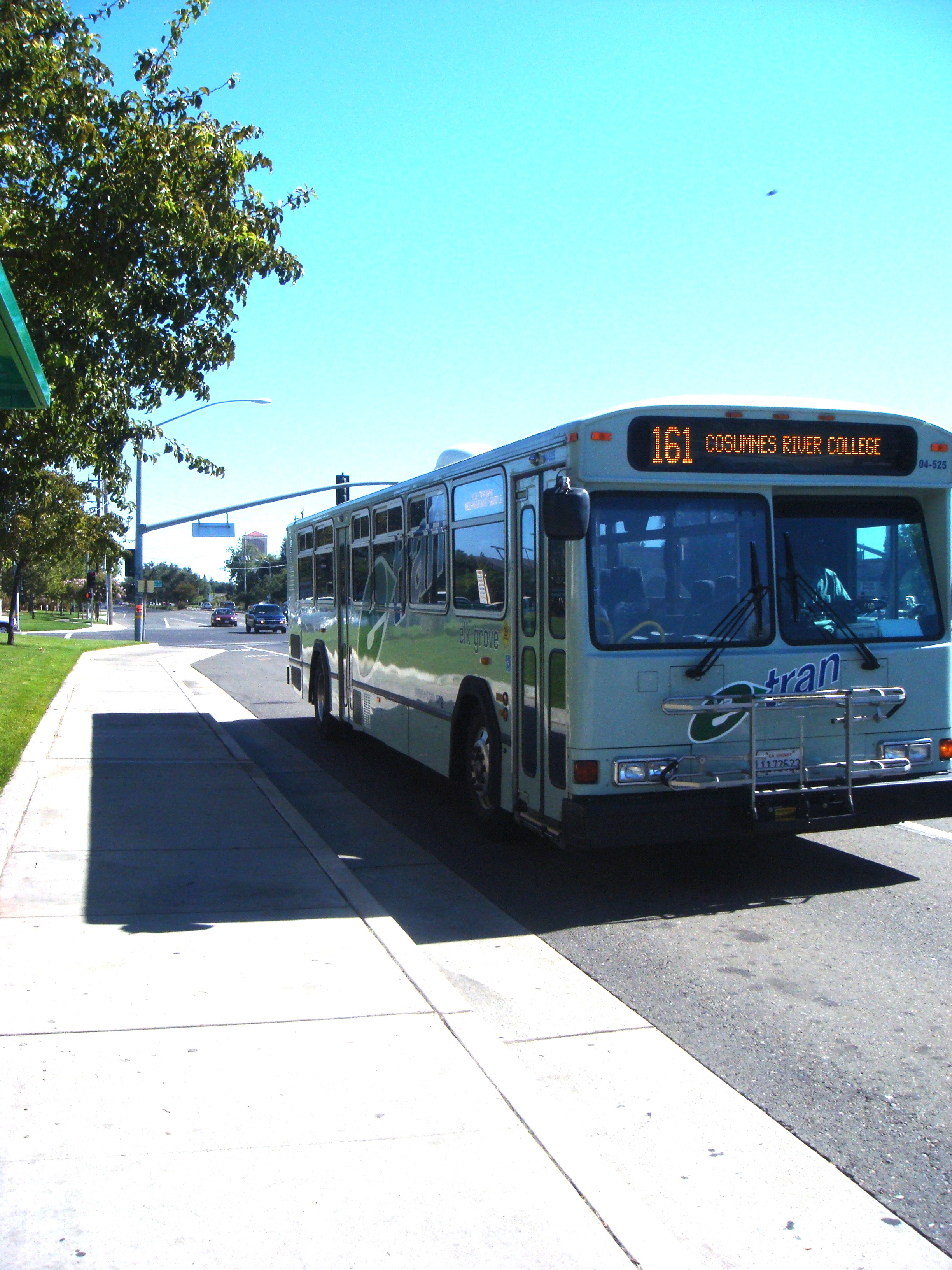 The e-tran 04-161 bus, in Elk Grove, California. This bus was built as a 1991 Gillig Phantom Diesel for San Diego Transit but then was rebuilt and converted into a 2004 Gillig Phantom Hybrid Suburban for E-Tran (hence the prefix number 04 on 04-161).